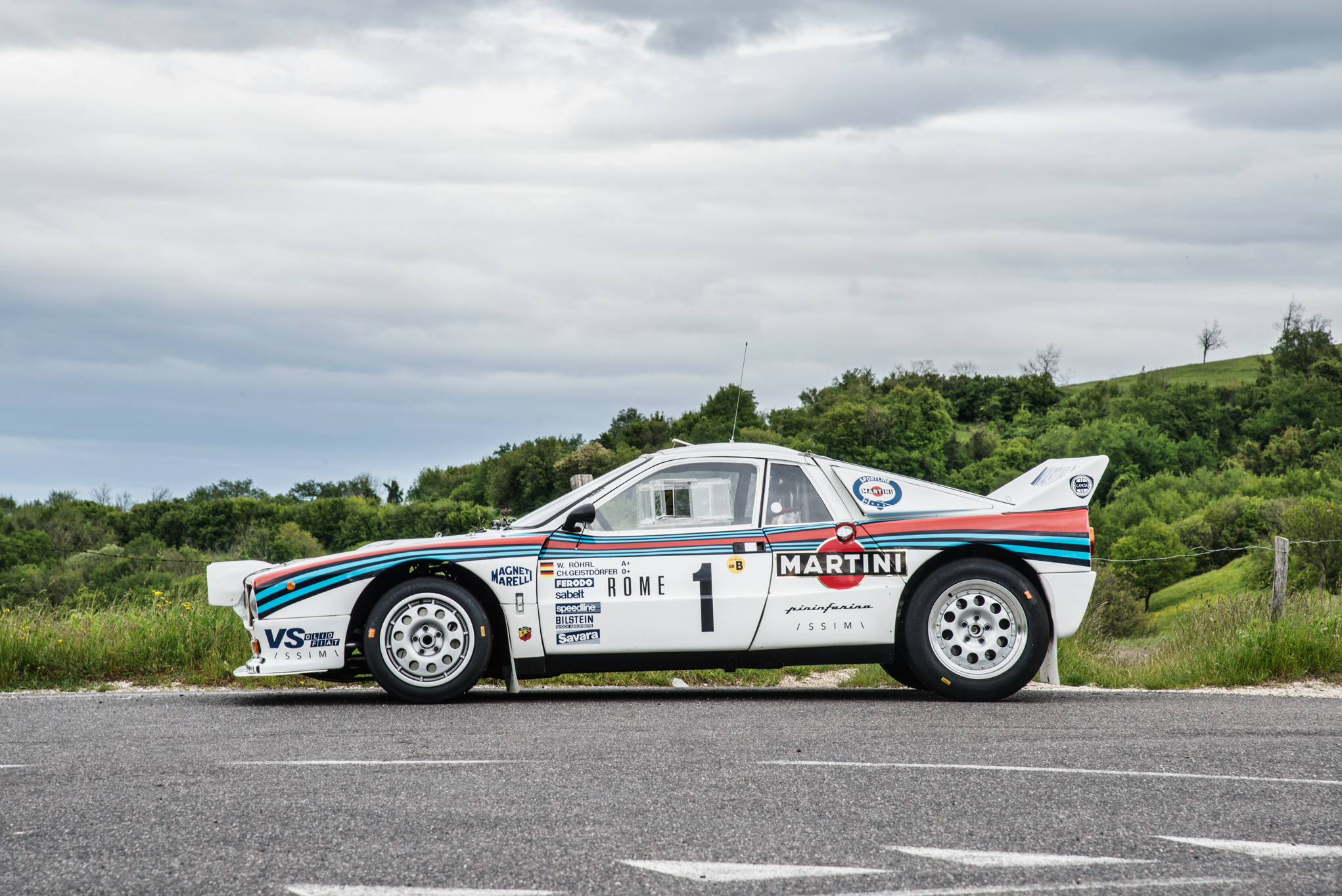 The Lancia Rally 037, winner of the UK rally in 1983